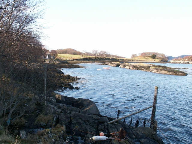 Small anchorage by Roshven farm. Small anchorage by Roshven farm, with one of the few bits of good land between Glen Uig and Kinlochailort behind